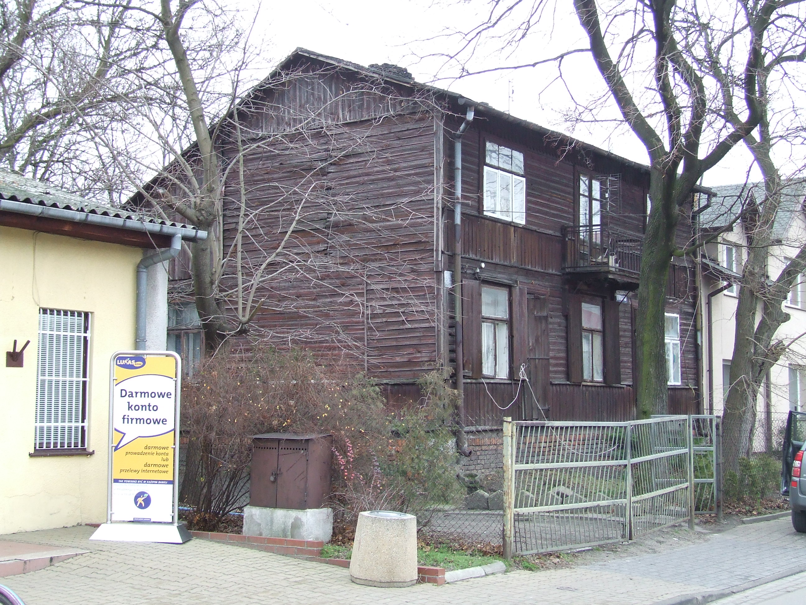 Legionowo, old house in old part of the city